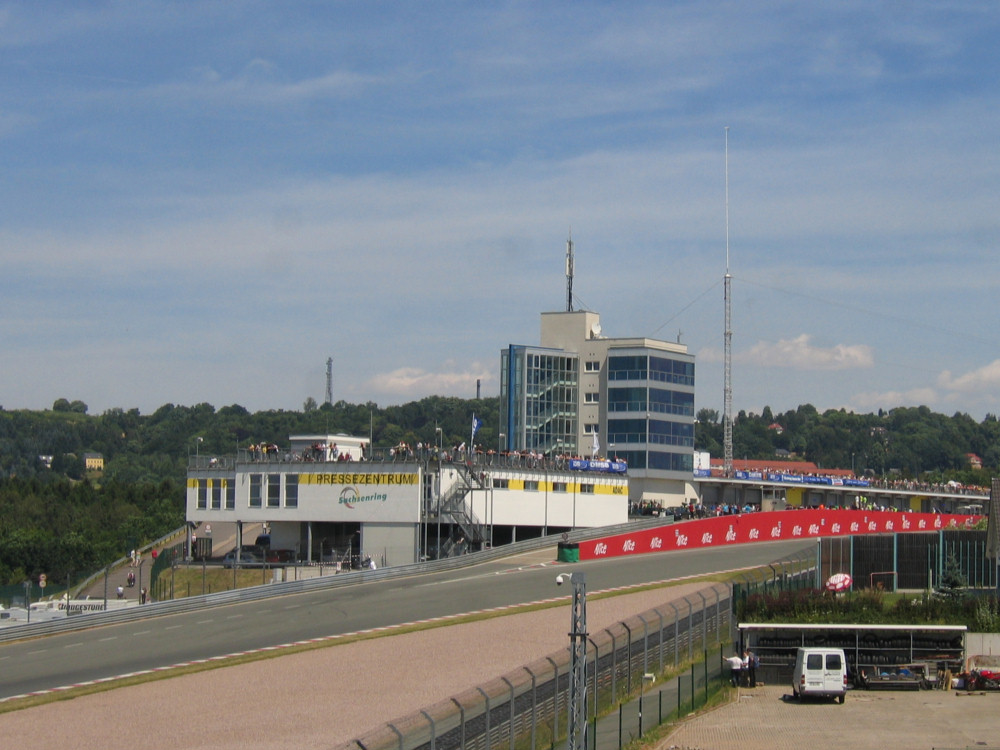 press center and pits at Sachsenring 2008